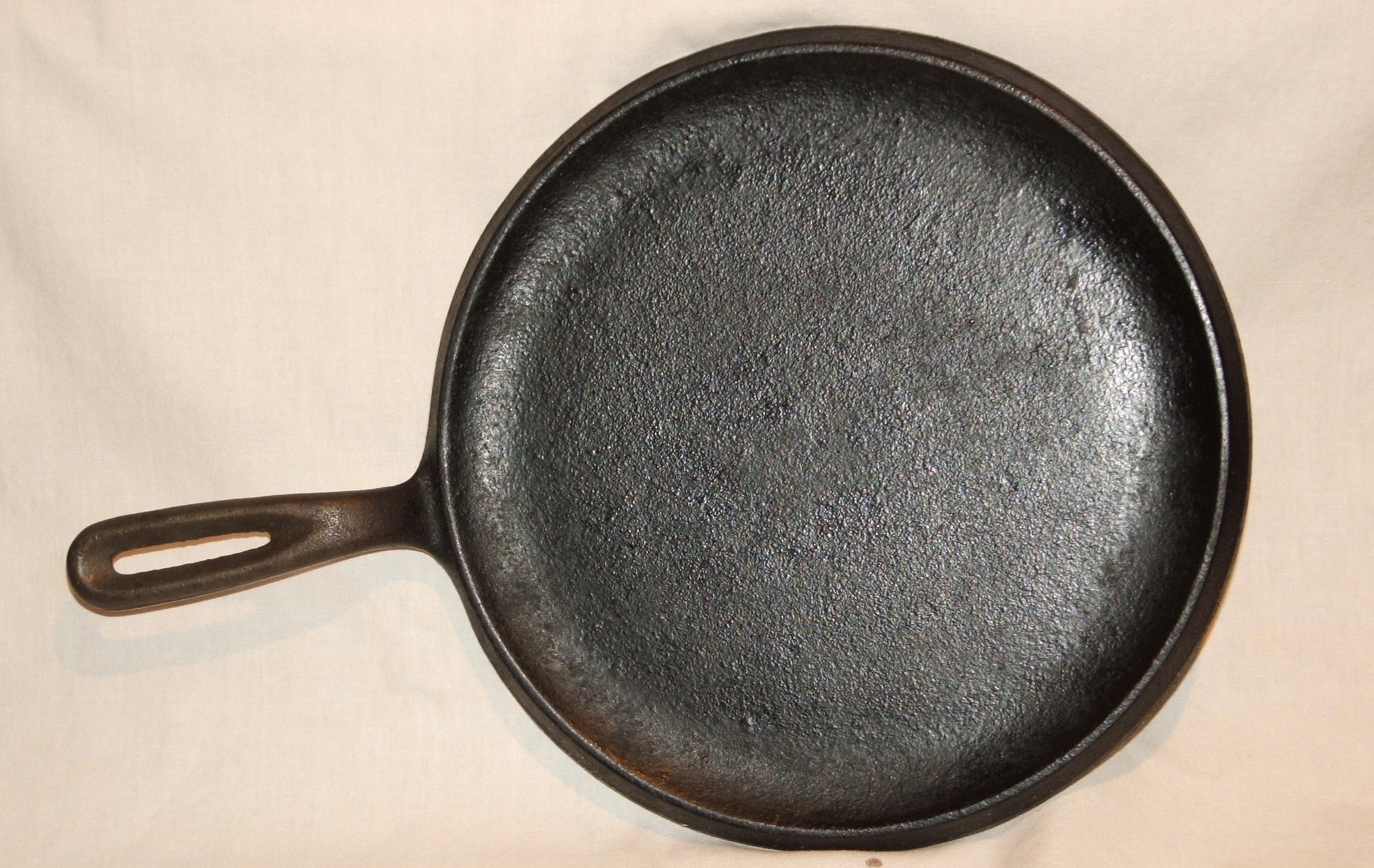 a comal - a griddle or grill used from the pre-Columbian era in Mesoamerican cultures